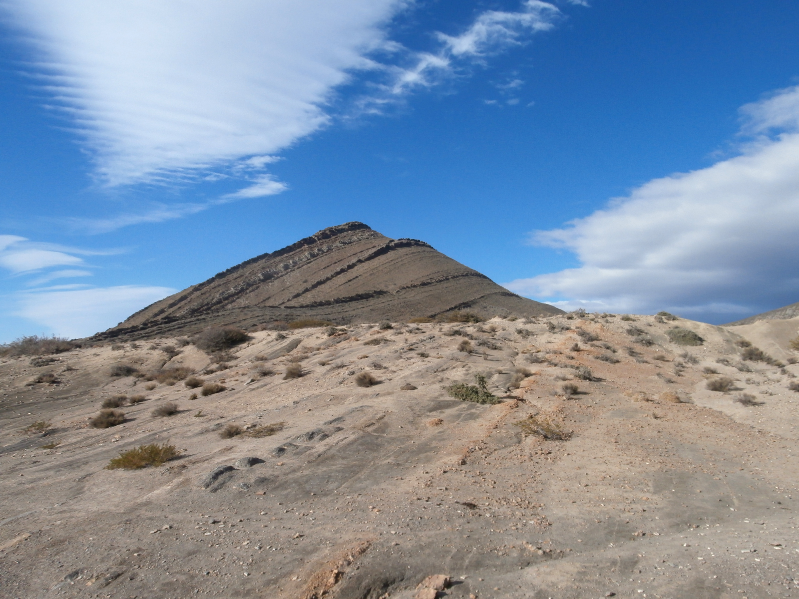 Vaca Muerta and Mulichinco fms. (Upper Jurassic-Lower Cretaceous) at Puerta Curaco, Neuquen, Argentina.